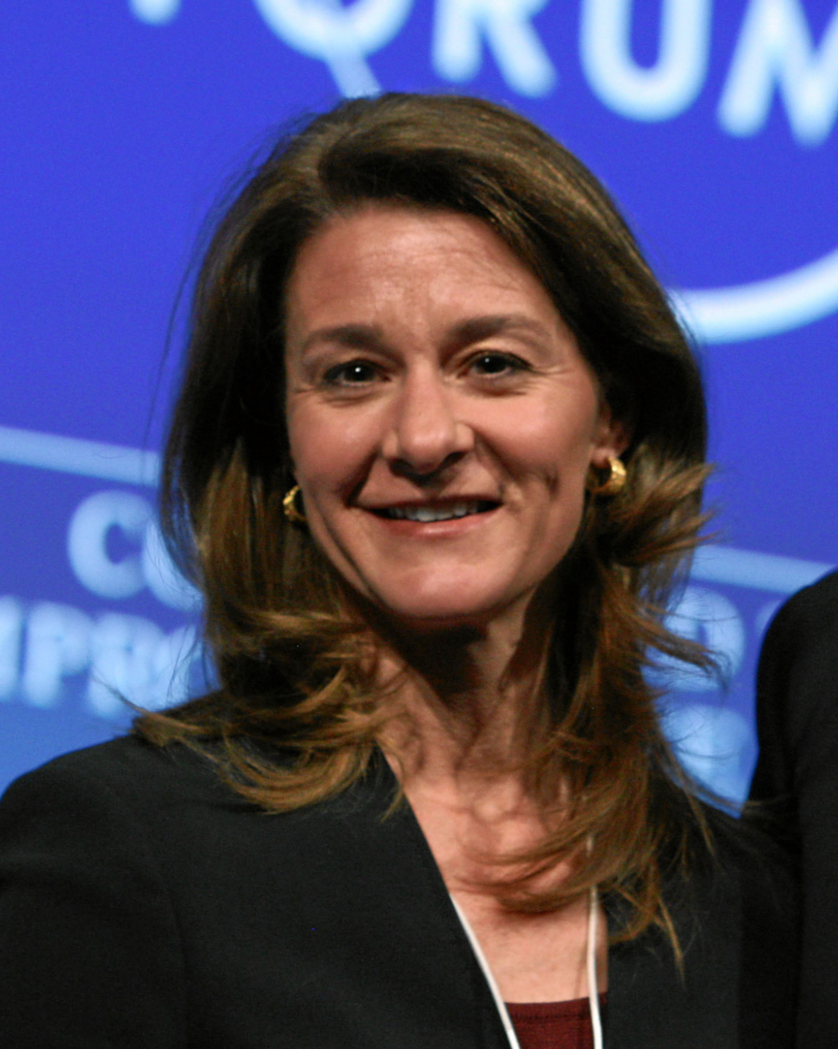 DAVOS/SWITZERLAND, 28JAN11 - William H. Gates III (FLTR), Co-Chair, Bill & Melinda Gates Foundation, USA, and Melinda French Gates, Co-Chair, Bill & Melinda Gates Foundation, USA, and David Cameron, Prime Minister of the United Kingdom, are captured during the session 'Polio: Eradicating an Old Reality Once and for All' at the Annual Meeting 2011 of the World Economic Forum in Davos, Switzerland, January 28, 2011. Copyright by World Economic Forum by Remy Steinegger